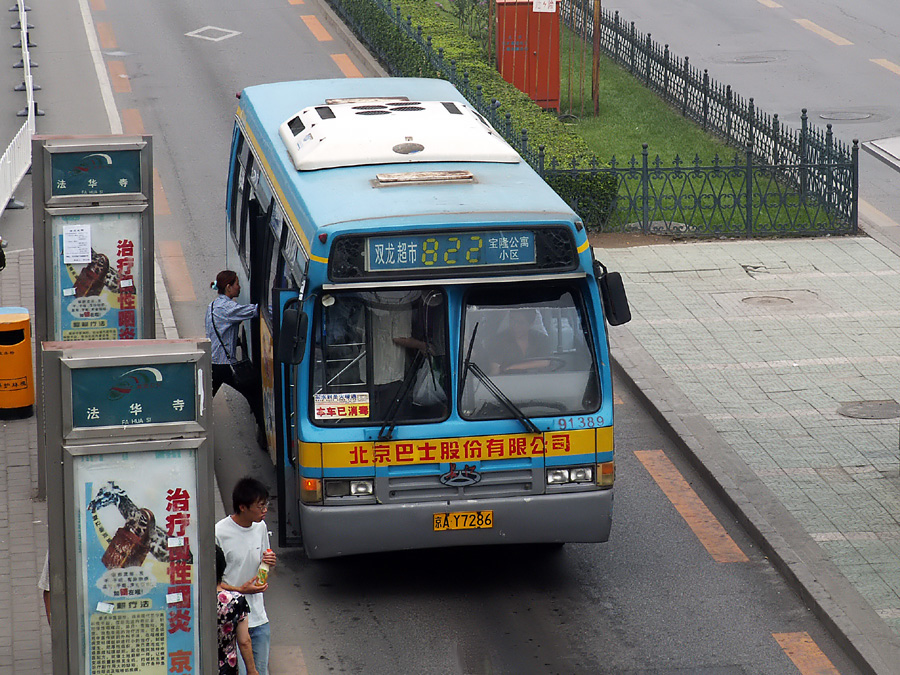 A Changzhou-Changjiang Flxible bus in the Chongwen district of Beijing. Photograph by Robert McConnell. 公共汽车法华寺站